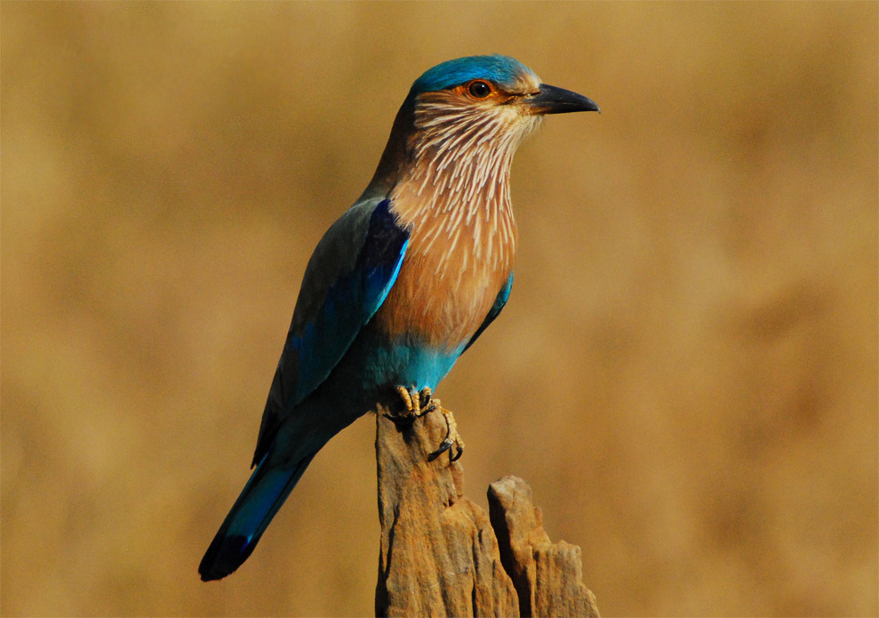 An Indian Roller, captured in Bandhavgarh National Park, Madhya Pradesh, India